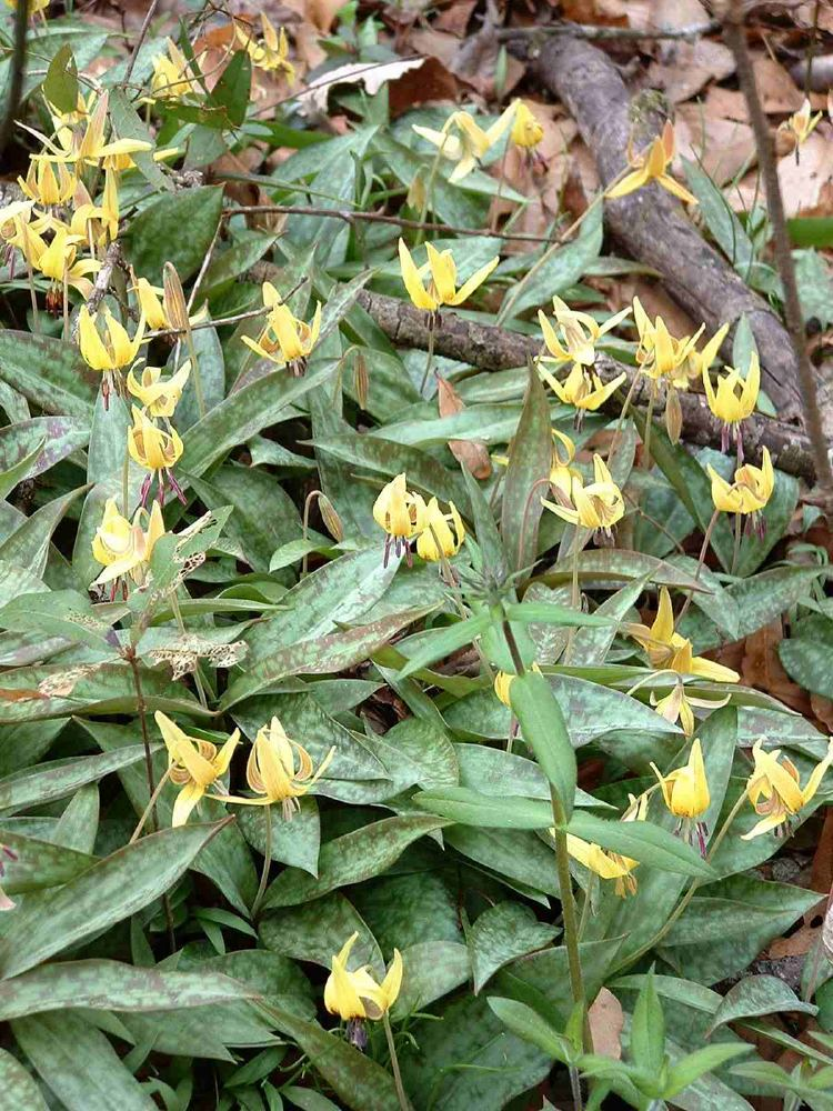 Erythronium americanum (Trout Lilly), Gadsden Co. FL, USA